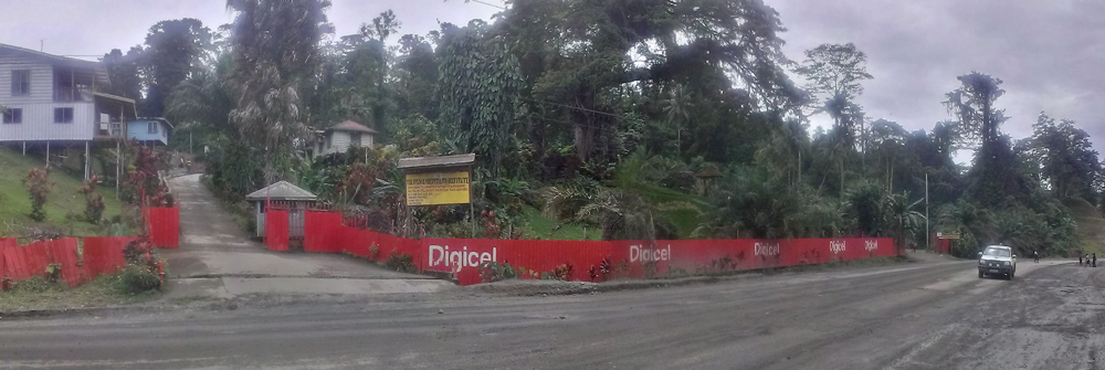 Panoramic photo of Lae Hospitality Institute at 9 Mile, on Nadzab Road, Lae Papua New Guinea